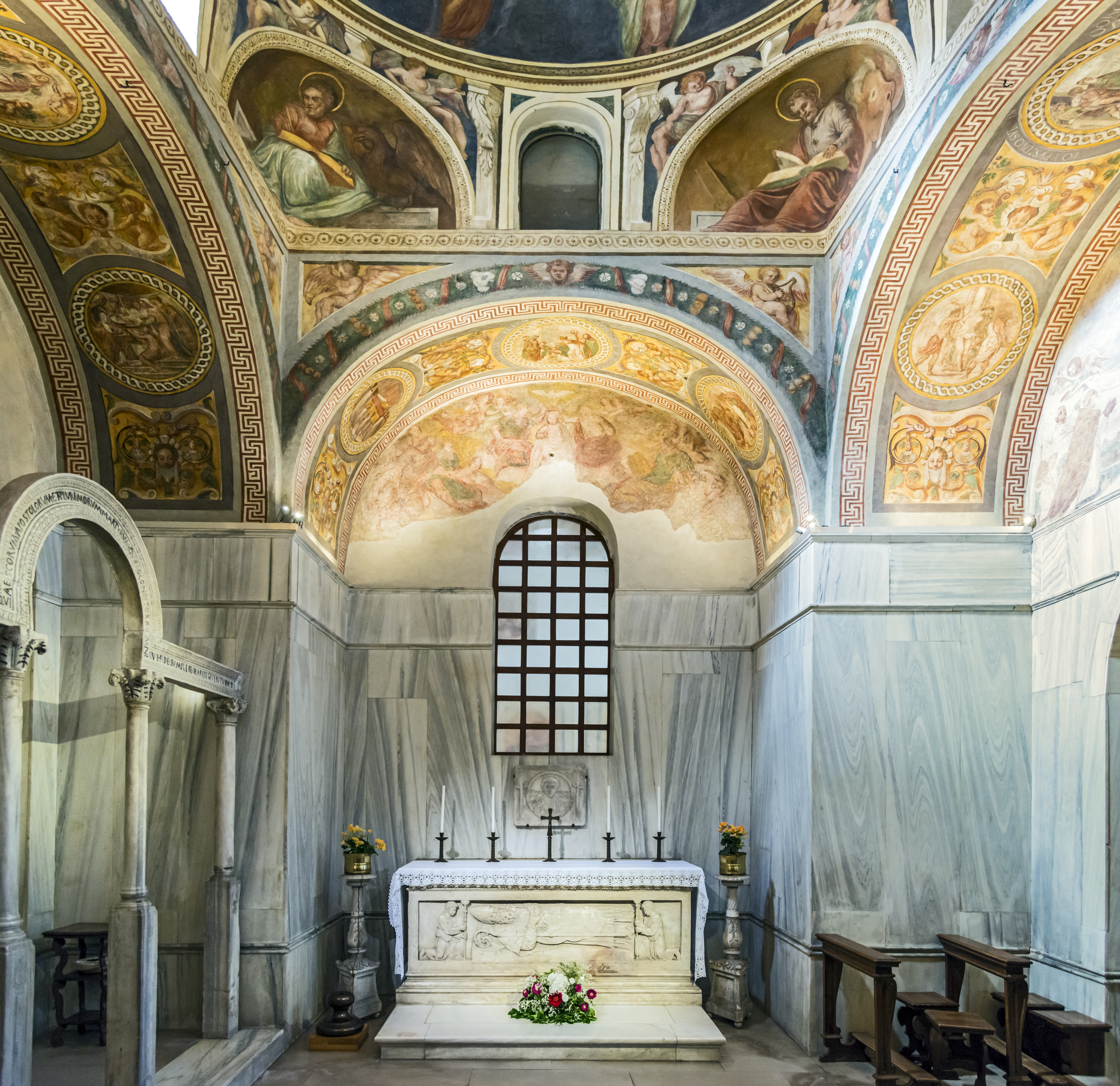 Churche Saint Justina of Padua in Italy. The sanctuary of Prosdocimus. One of the oldest buildings in Veneto: dated from the 6th century. It is the only preserved vestige of the opilionea basilica. Originally it was a chapel dedicated to the preservation of relics. The space is conceived on the plane of the Greek cross and is characterized by a very elegant awning composed of dome all painted in grotesque in the sixteenth century to replace the original mosaic decoration. It was the burial place of the first bishops of Padua, including the first, St Prosdocime of Padua, whose body rests in the altar of 1564. It consists of a Roman sarcophagus placed on the right (in relation to the " apse). In front of the apse a pergola, in Greek marble, astonishing work of the sixth century practically intact preserved in the initial position of Iconostase.